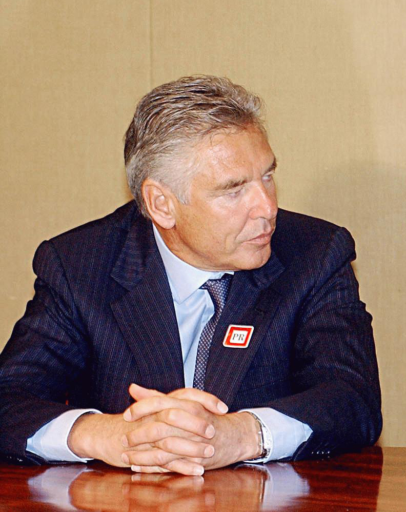 Peter Brabeck-Letmathe, CEO of Nestlé.